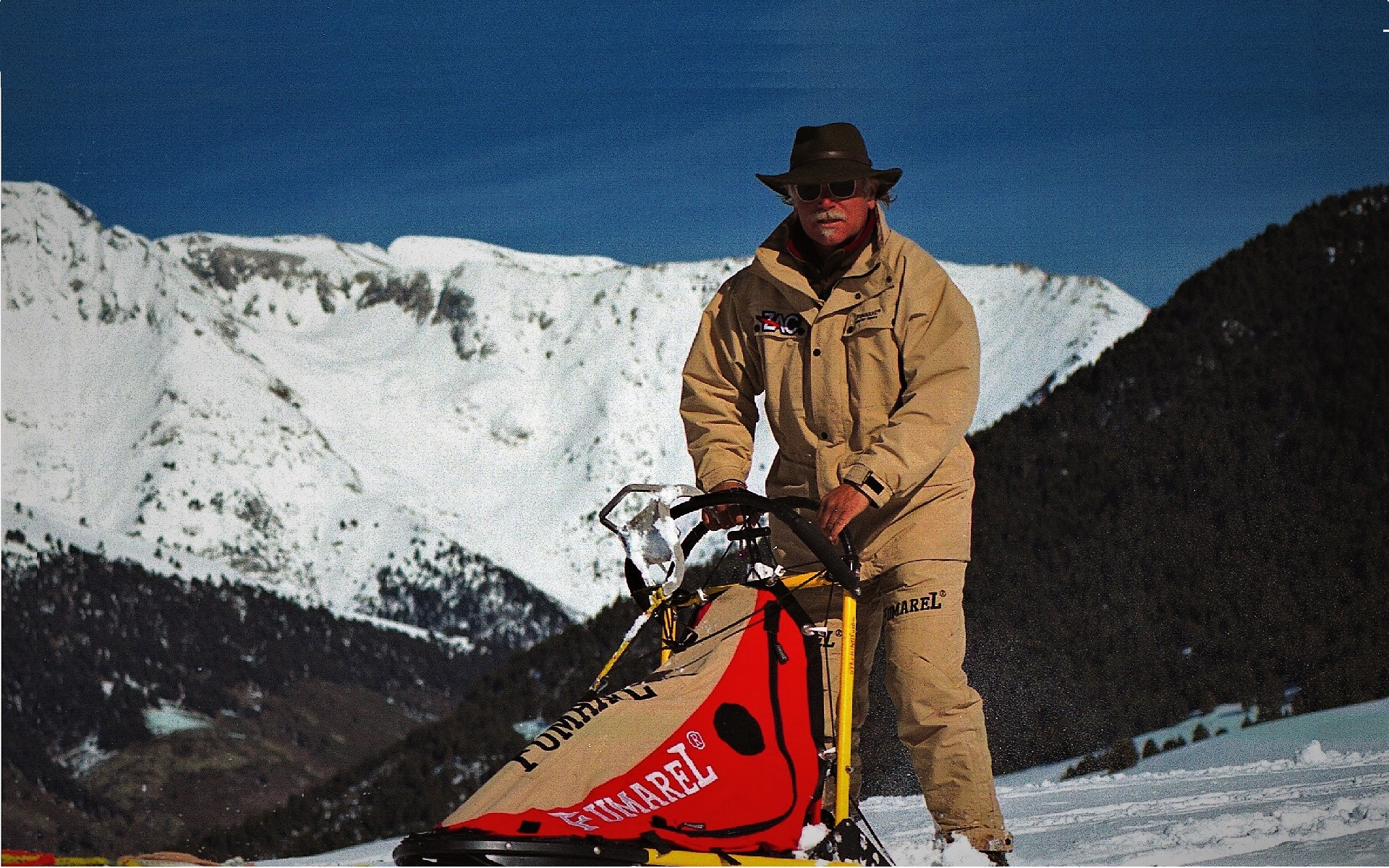 Mushing Team sponsored by the Spanish textile company Fumarel at the Pirena Mushing Race, 2004